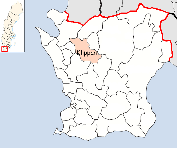 Klippan Municipality in Scania, Sweden Designed by me. Mere outlines are a PD source from